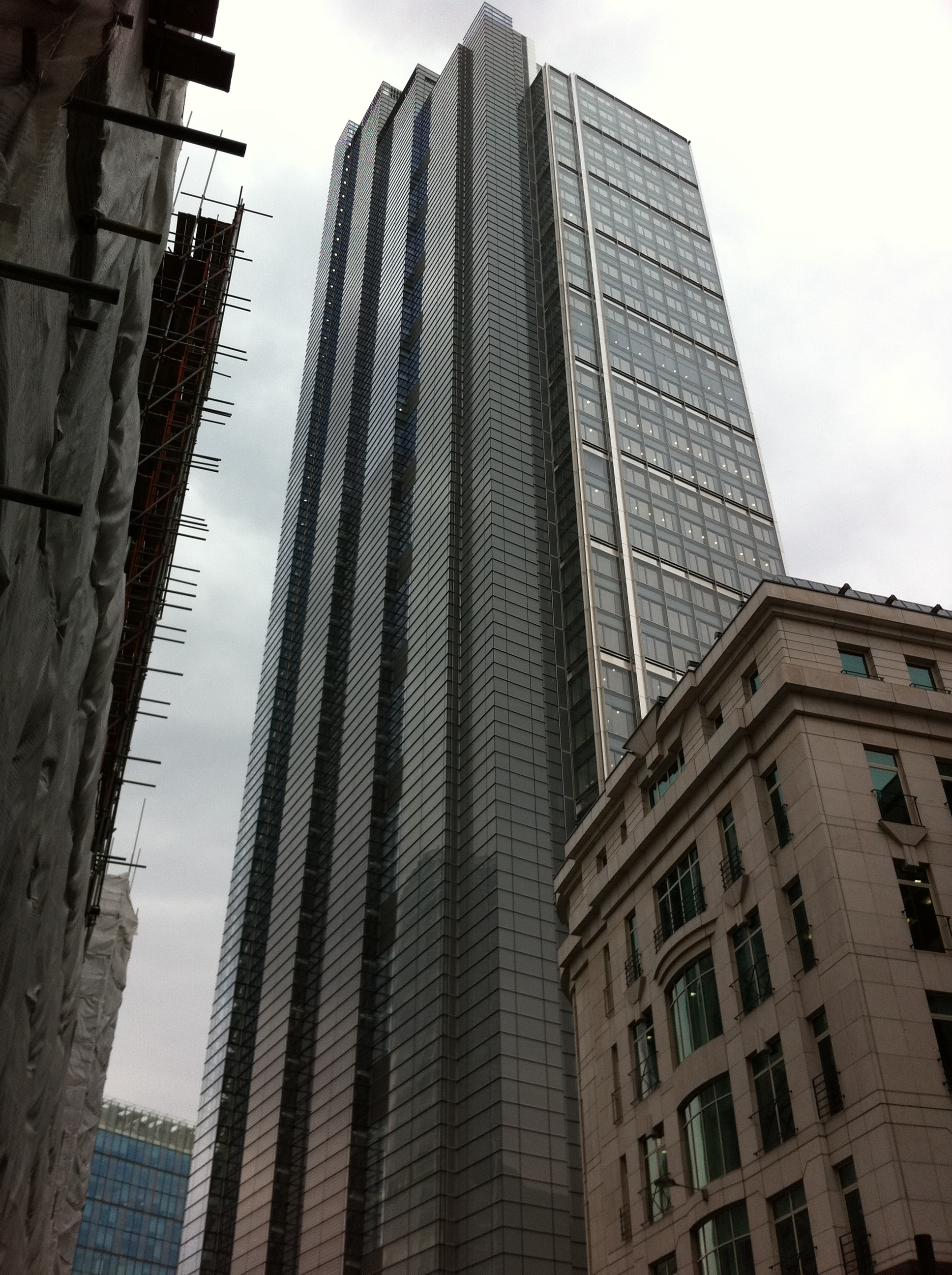 Heron Tower. Currently the 3rd tallest building in the UK